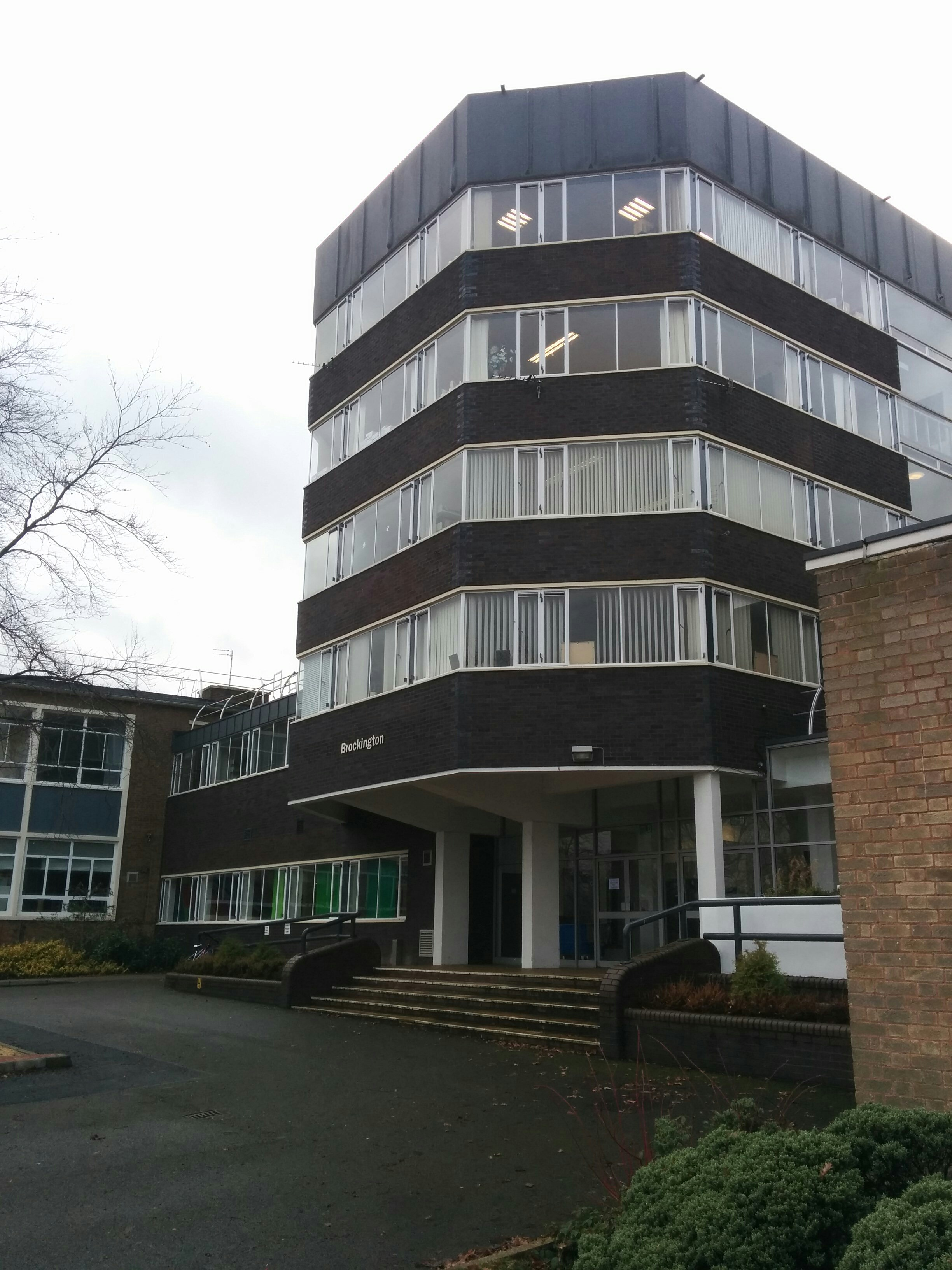 Loughborough University building in 2017